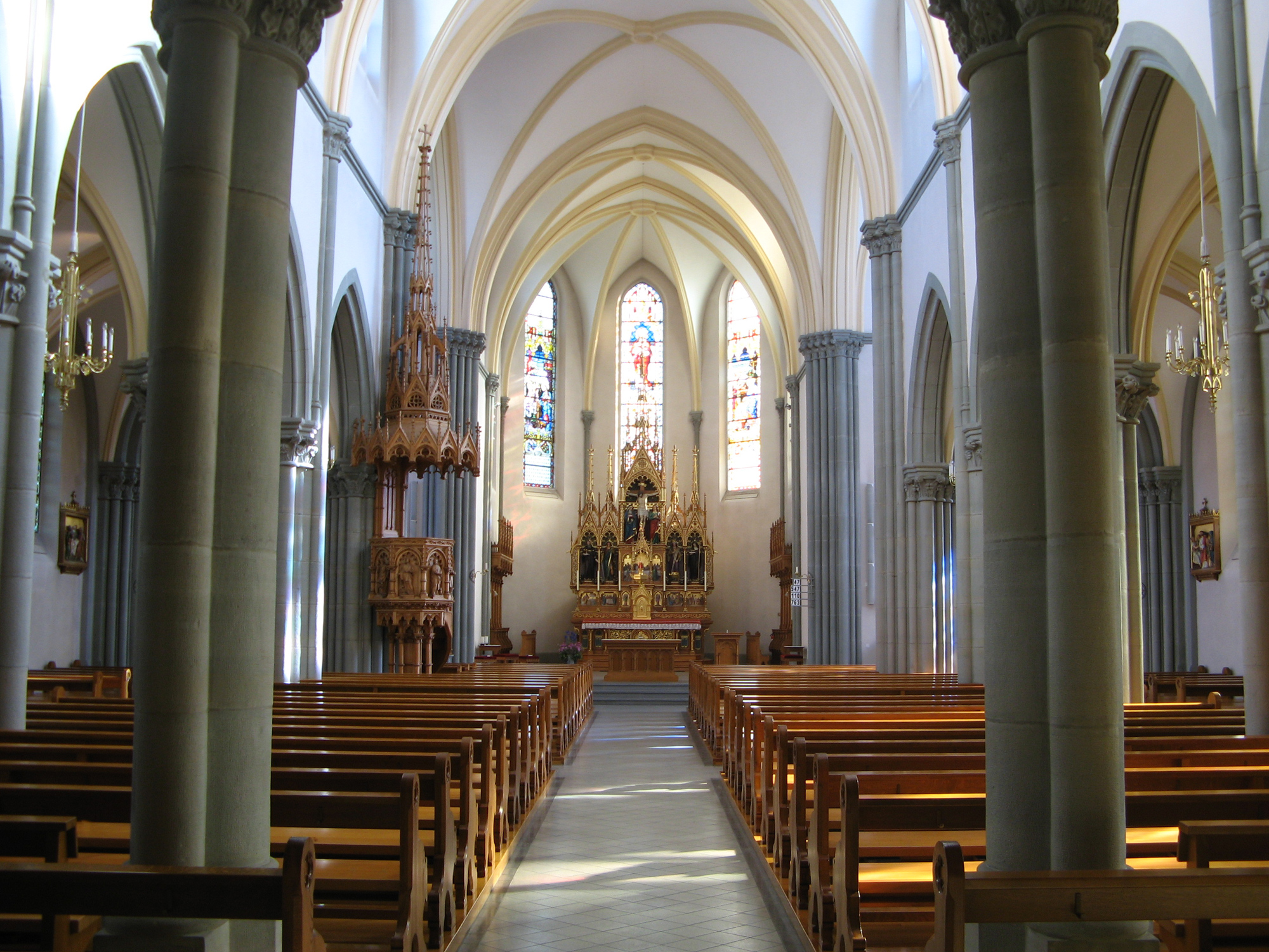 Interior view of St Pancras parish church in Boswil